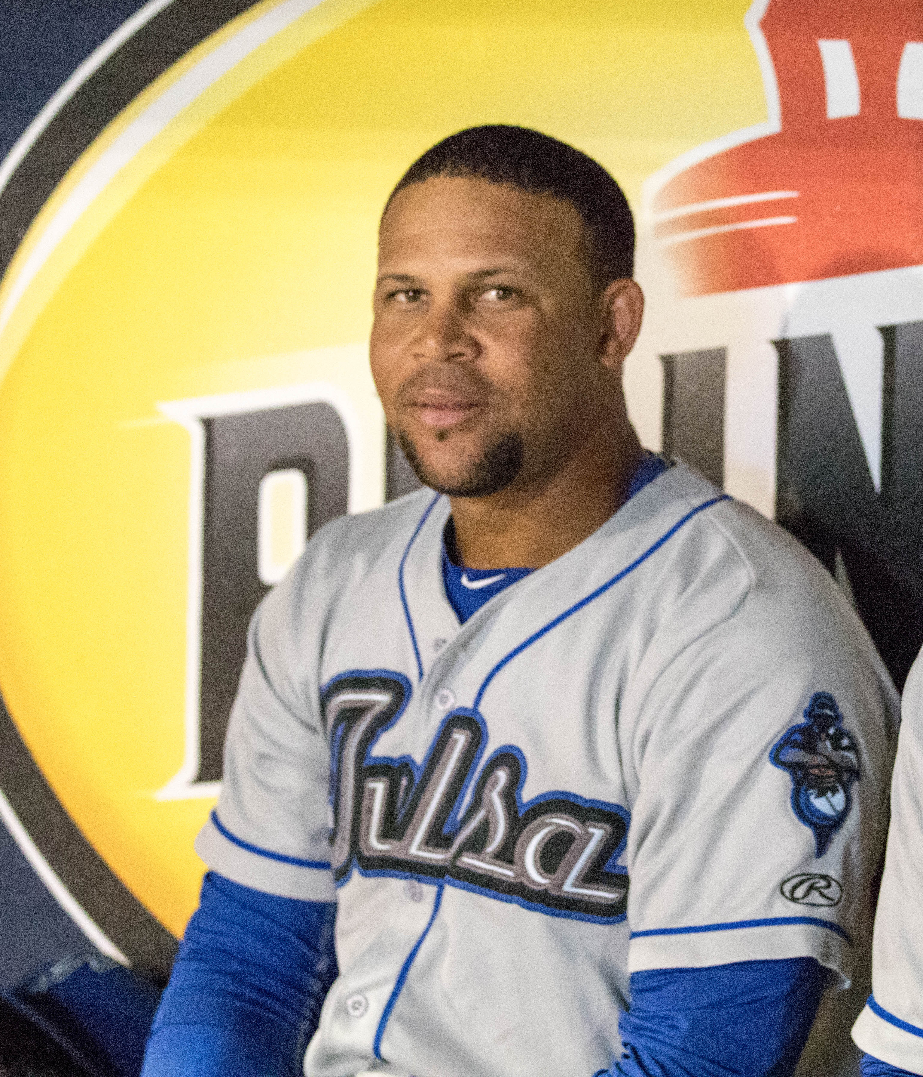 Jose Miguel Fernandez with the Tulsa Drillers